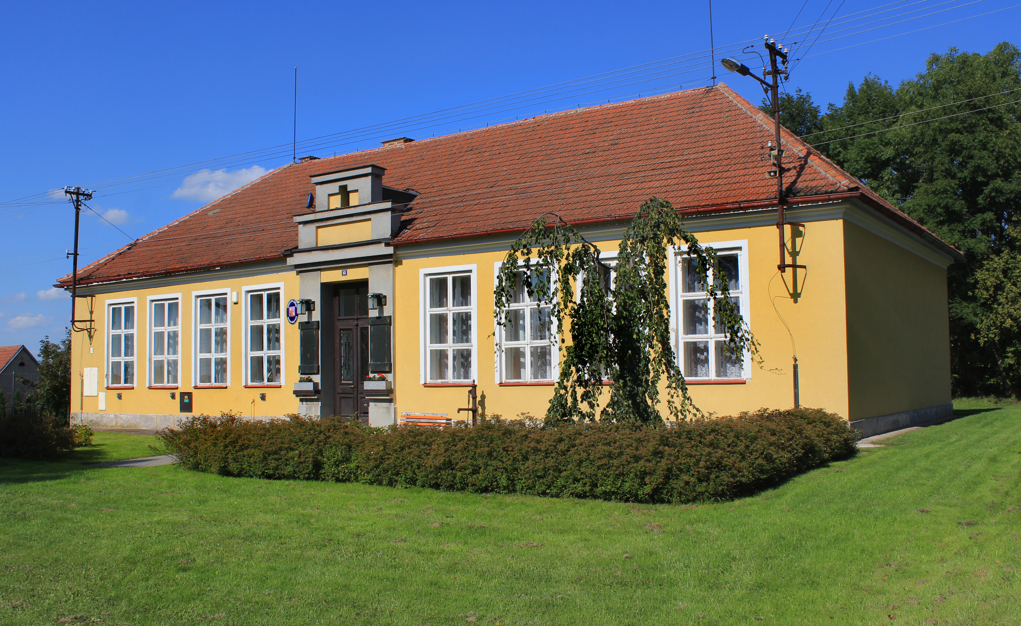 Municipal office in Bohuňovice, Czech Republic.